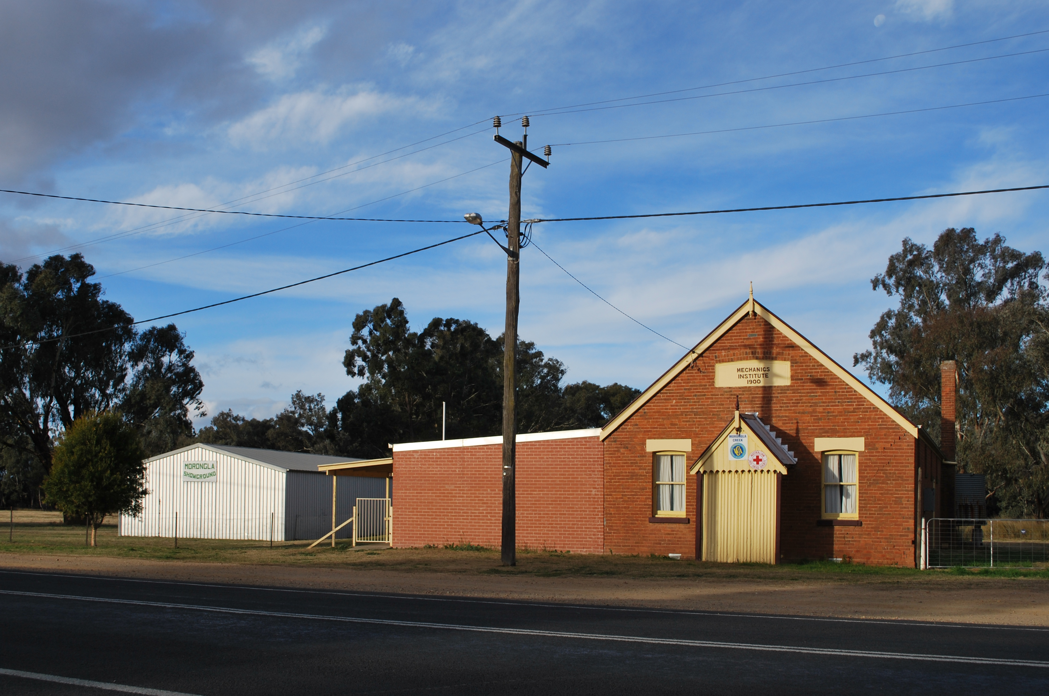 Mechanics Institute, CWA Hall and showground at Morongla, New South Wales